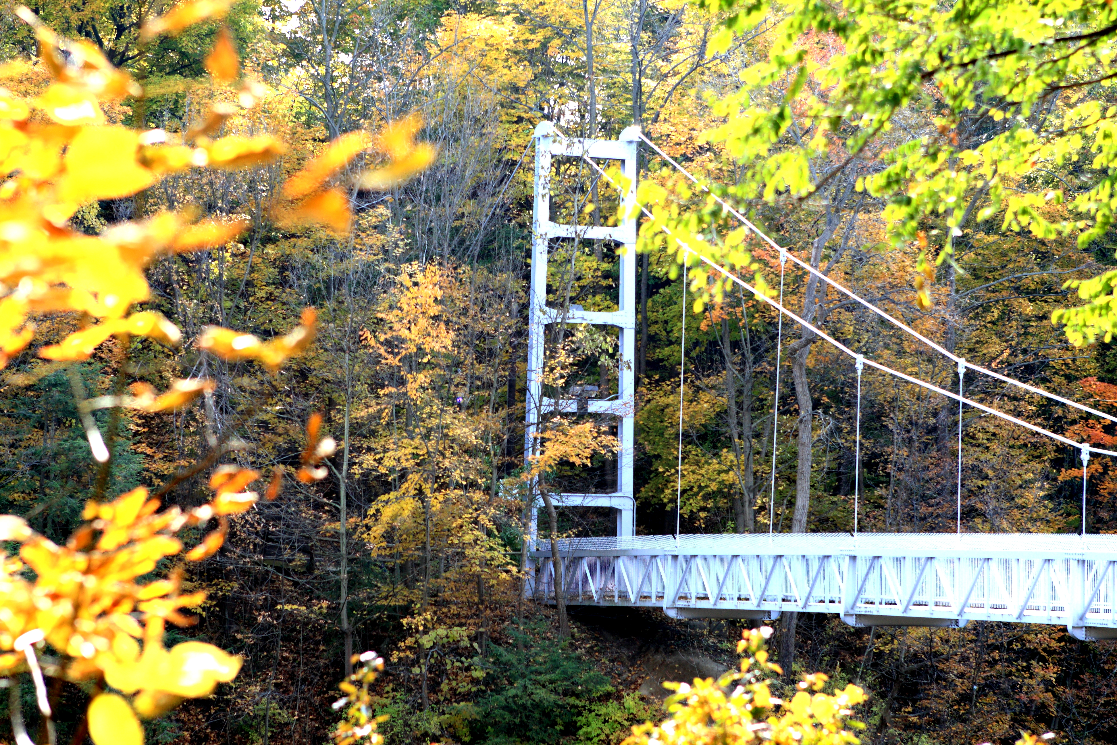 Pedestrian Suspension Bridge over Fall Creek at Cornell University in 2009